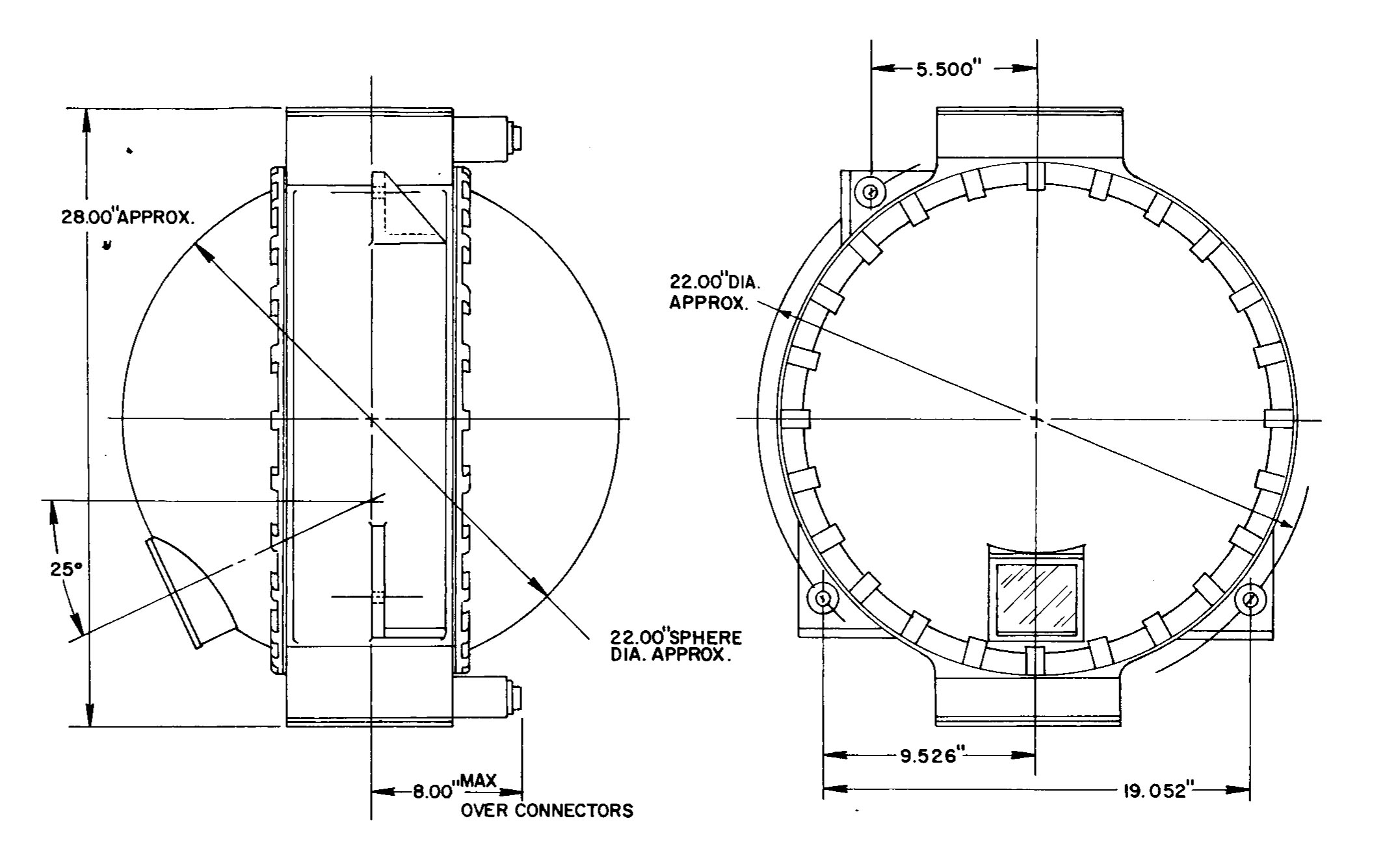 Figure 10 from “A General Description of the ST124-M Inertial Platform System” by Herman E. Thomason, Marshall Space Flight Center, September 1965. NASA TN D-2983. Though this appears to be a scale drawing, if the dimension labeled "5.500" is compared to either of those labeled "9.526" or "19.052" it will be seen they are not to the same scale. The dimensions given in this drawing are therefore unreliable.